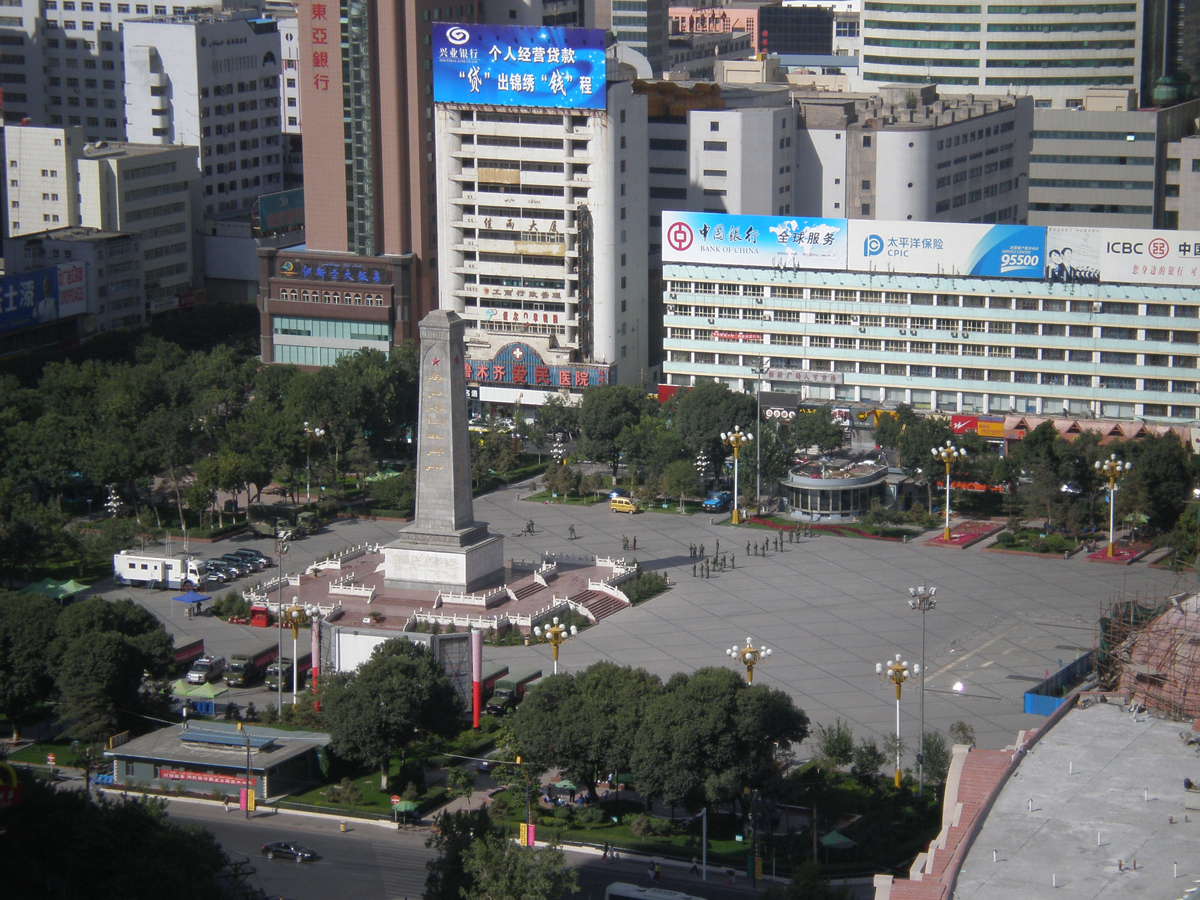 People's Square of Urumqi